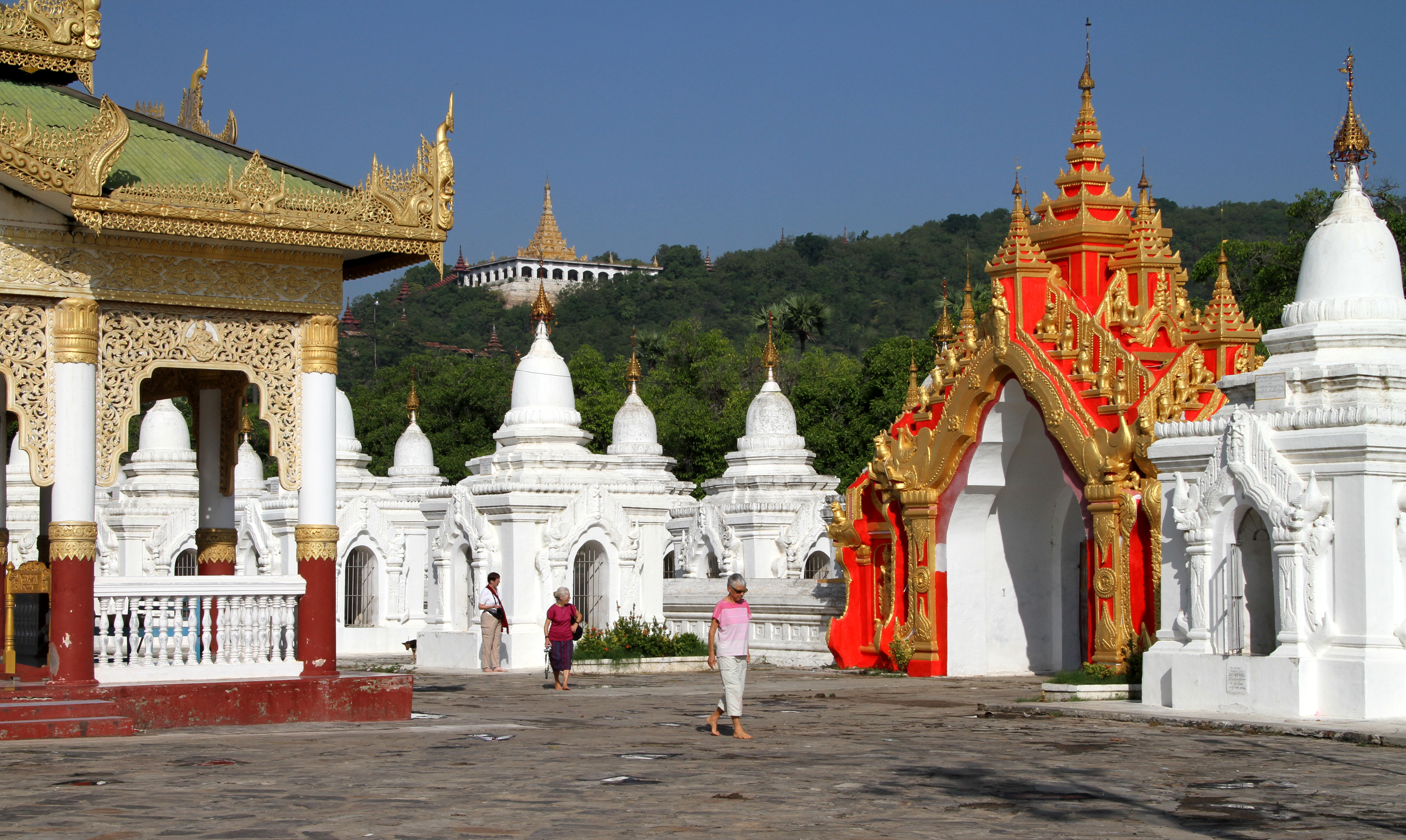 Kuthodaw Pagoda in Mandalay in Myanmar. Inscription Shrines.